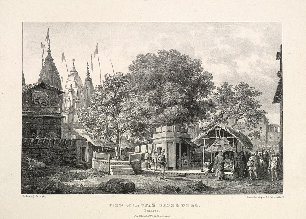 "View Of The Gyan Bapee Well, Benares," lithograph, by the Anglo-Indian scholar and mint assay master James Prinsep. Dated 1834. Courtesy of the British Library, London.